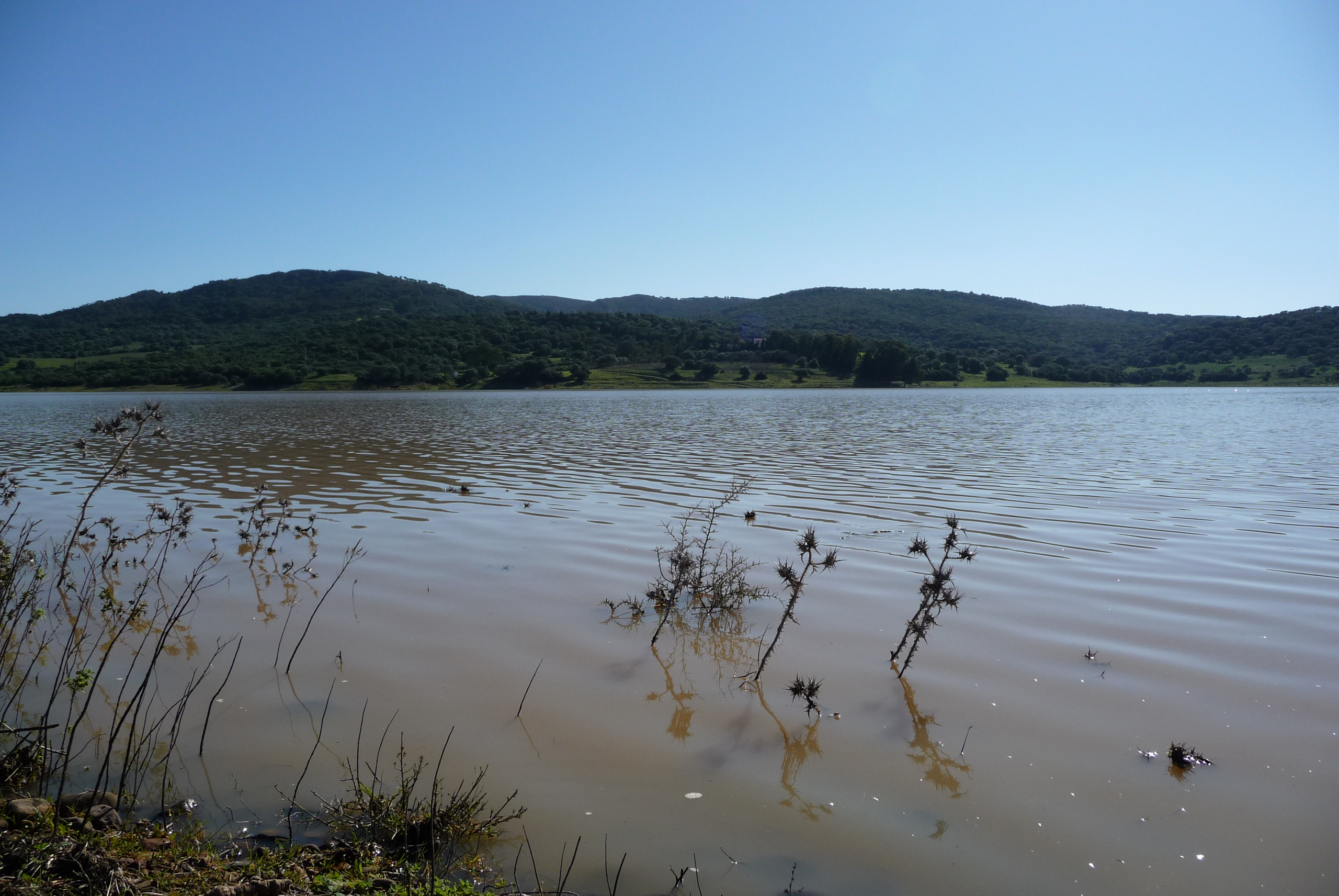 El Celemin man-made lake, (Andalusia, Spain)